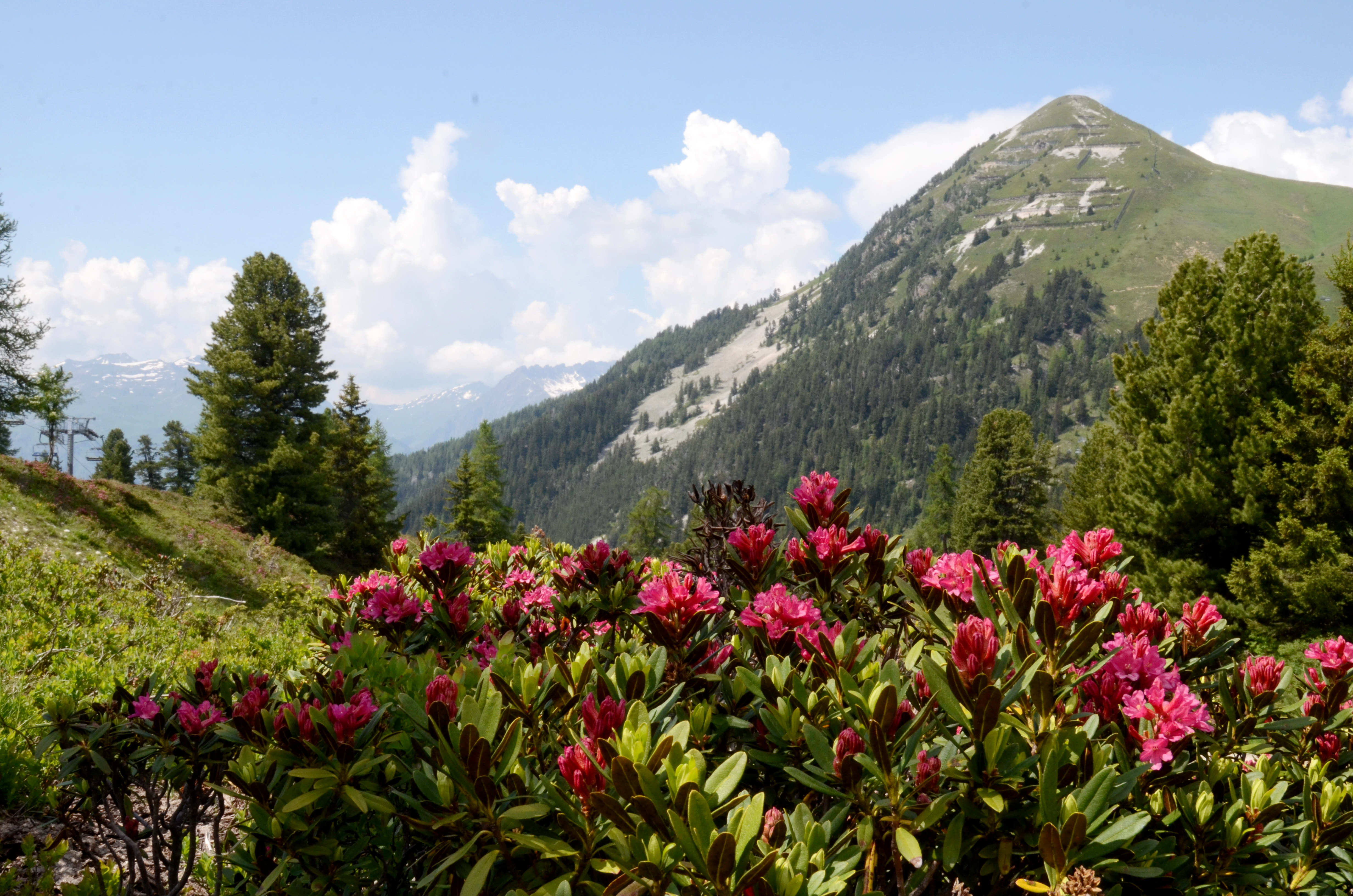 Near Belle Plagne 2050 m you can enjoy Alp roses and Mont St Jacques 2407 m